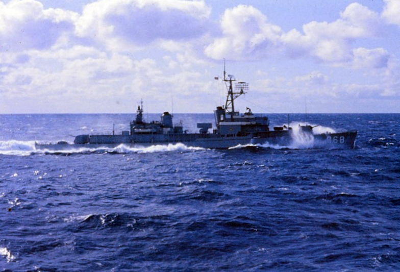 The U.S. Navy destroyer USS Brownson (DD-868) in the Atlantic Ocean while returning from a deployment to the Mediterranean Sea, in December 1964.